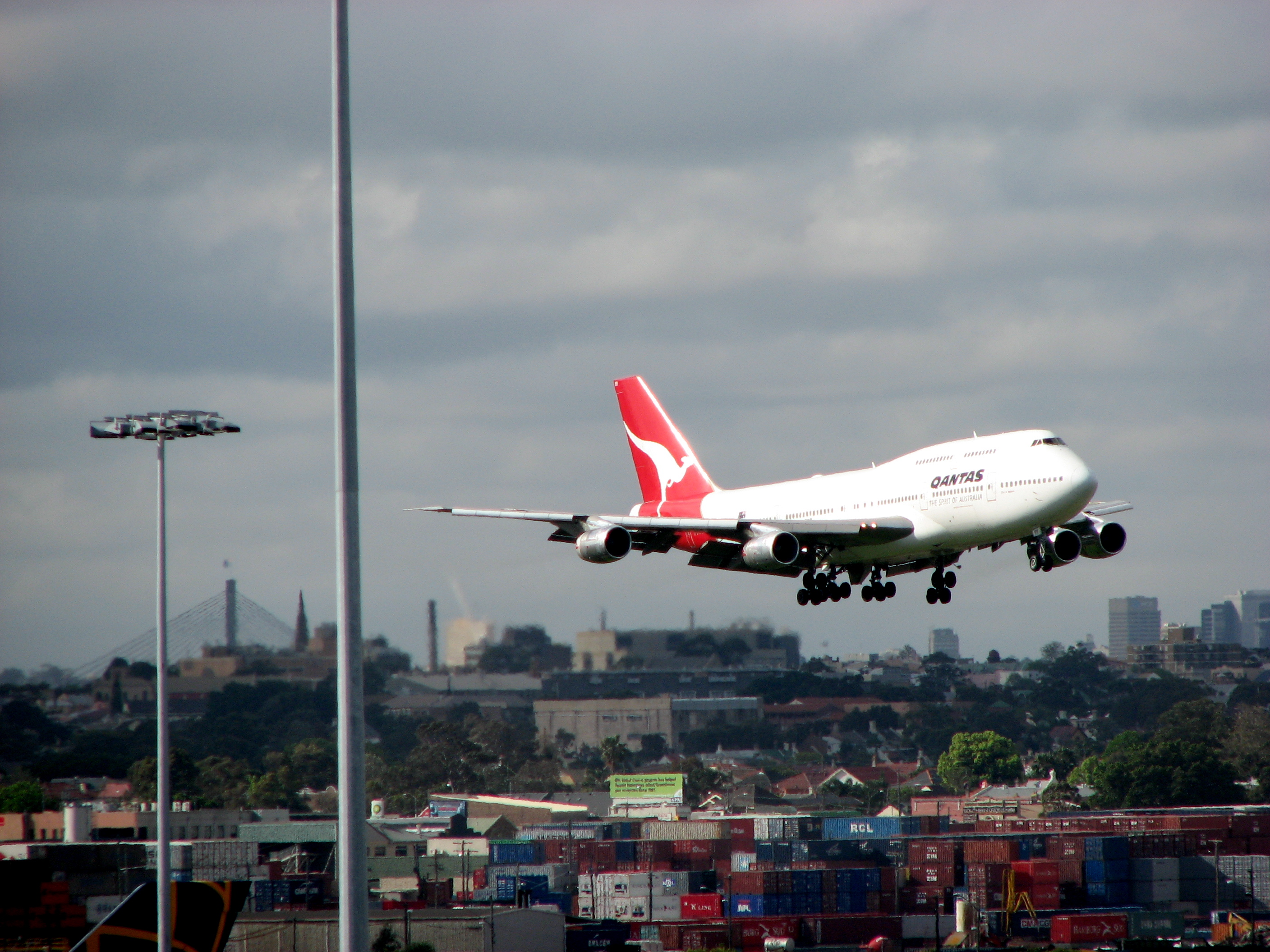 Qantas 747 landing at Sydney Airport over Port of Sydney containers.